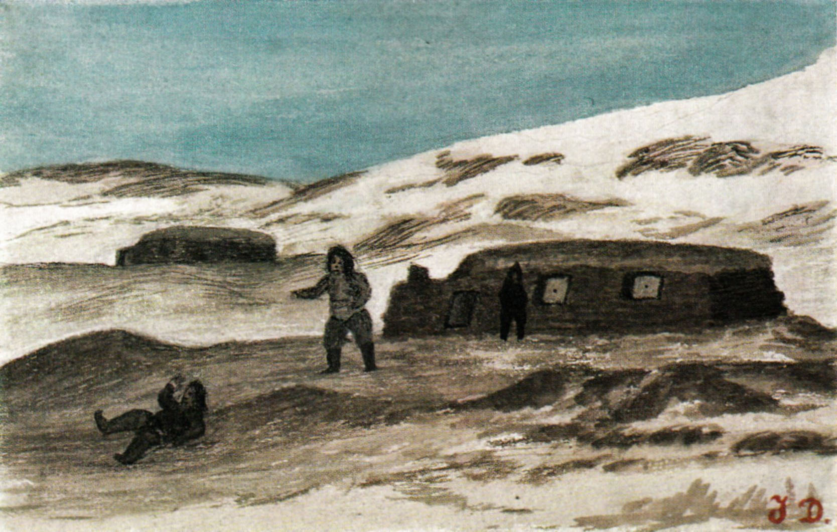 Jakob Danielsen - 01 Kaassassuk thrown out of the house